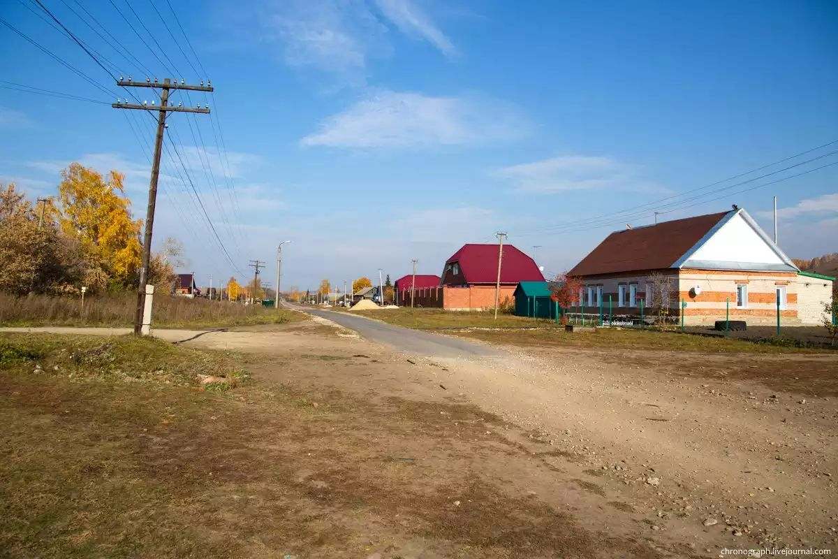 Former post road Syzran - Simbirsk; now a street of Troitskoye village, Syzran Raion, Samara Oblast, Russia.